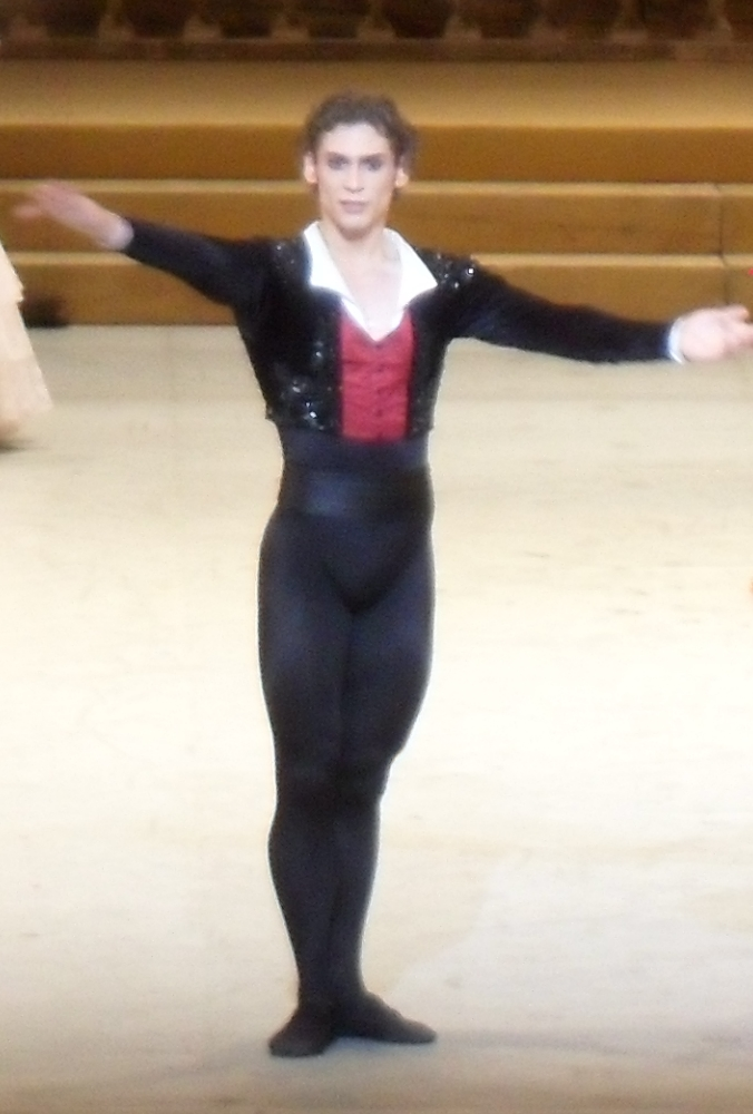 Natalia Osipova and Ivan Vasiliev